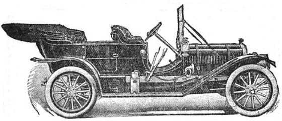 A picture of a Standard Six automobile from a old Almanac From Google Books Title The World almanac & book of facts Author Facts on File, Inc Publisher Newspaper Enterprise Association, 1909 Original from the University of Michigan Digitized Jun 14, 2007